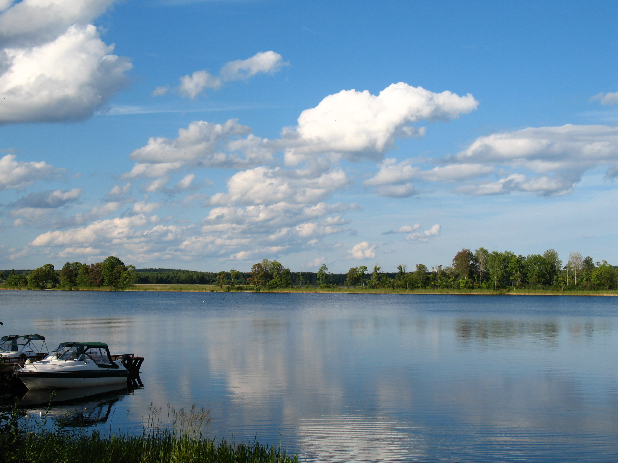 Lake Seliger, Tver region, Russia.